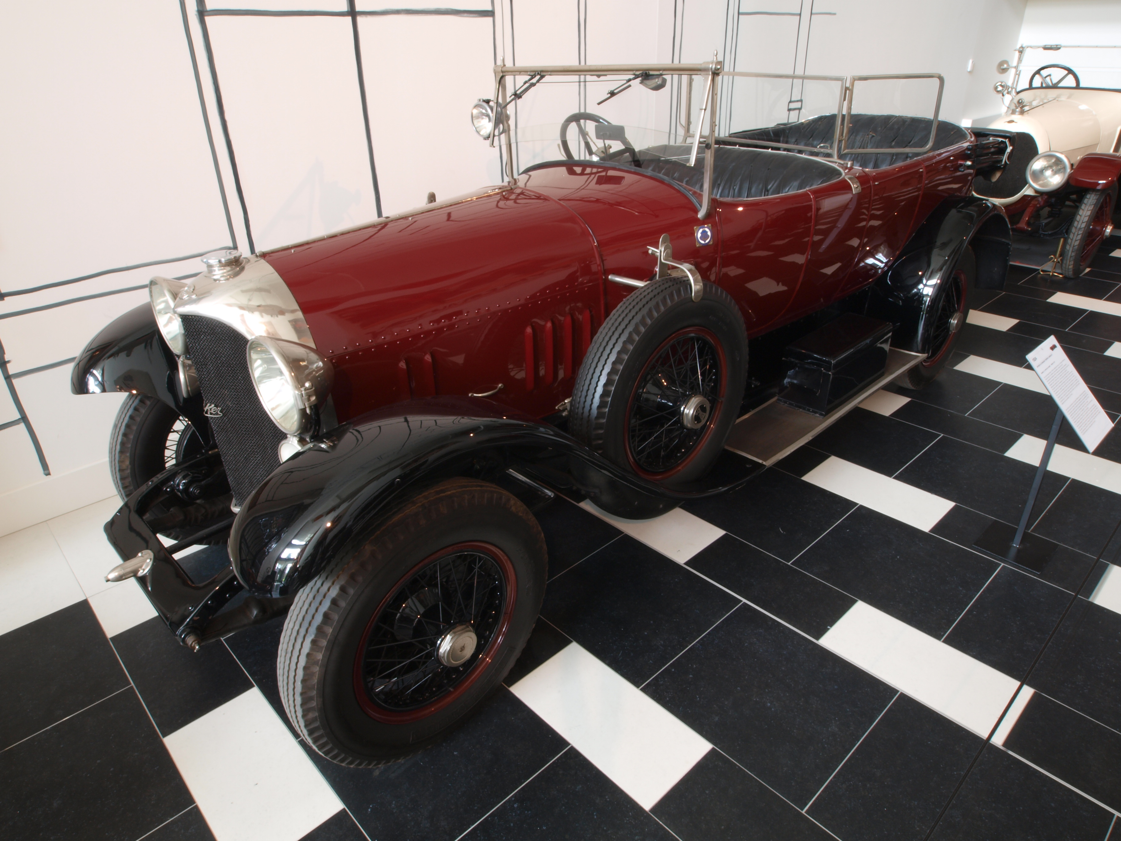 Photographed at the Louwman museum / Louwman Collection, The Netherlands.